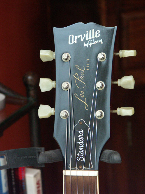 Author : Godescalcus (myself).